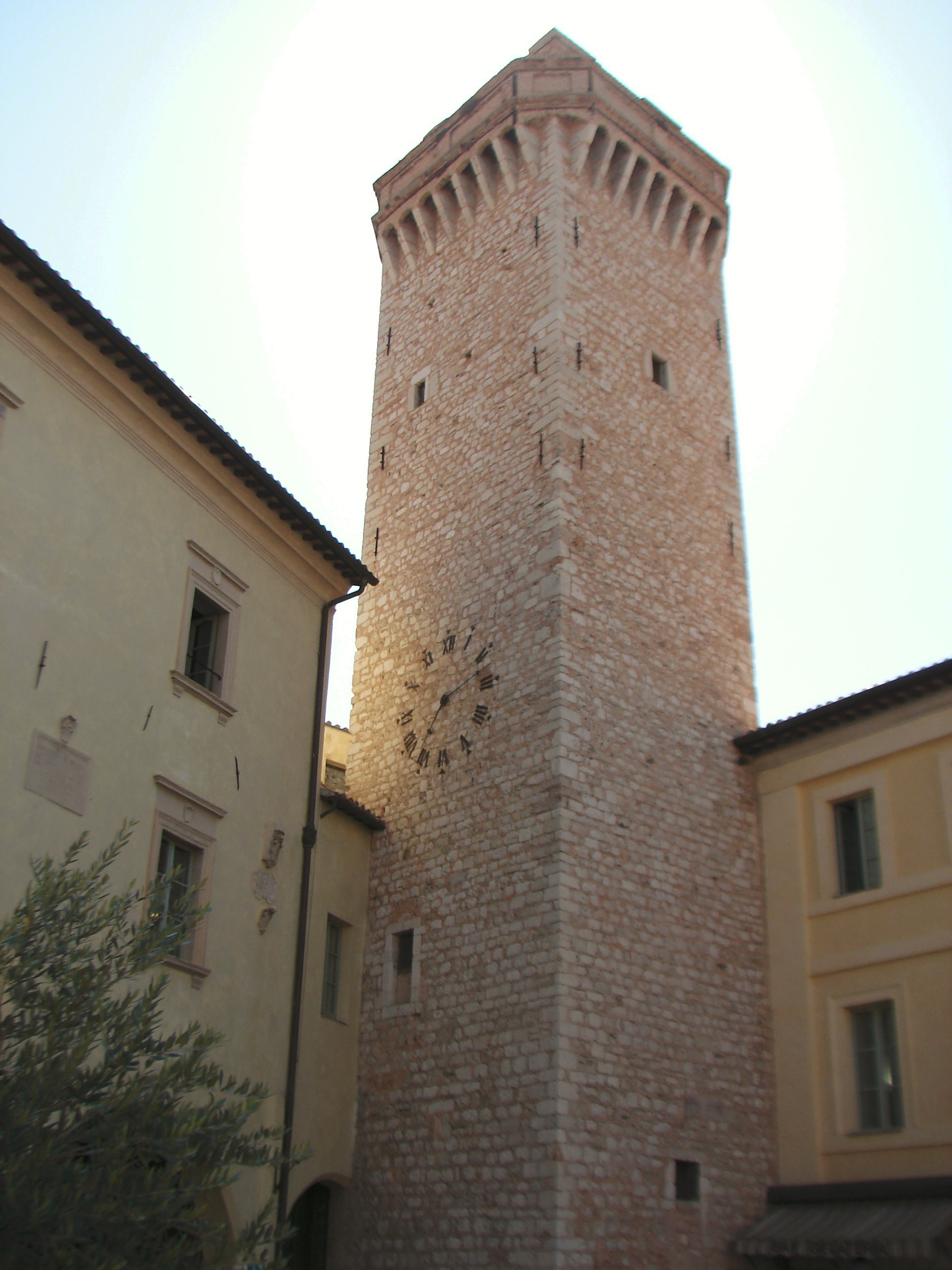 Clock tower on the main square in Trevi